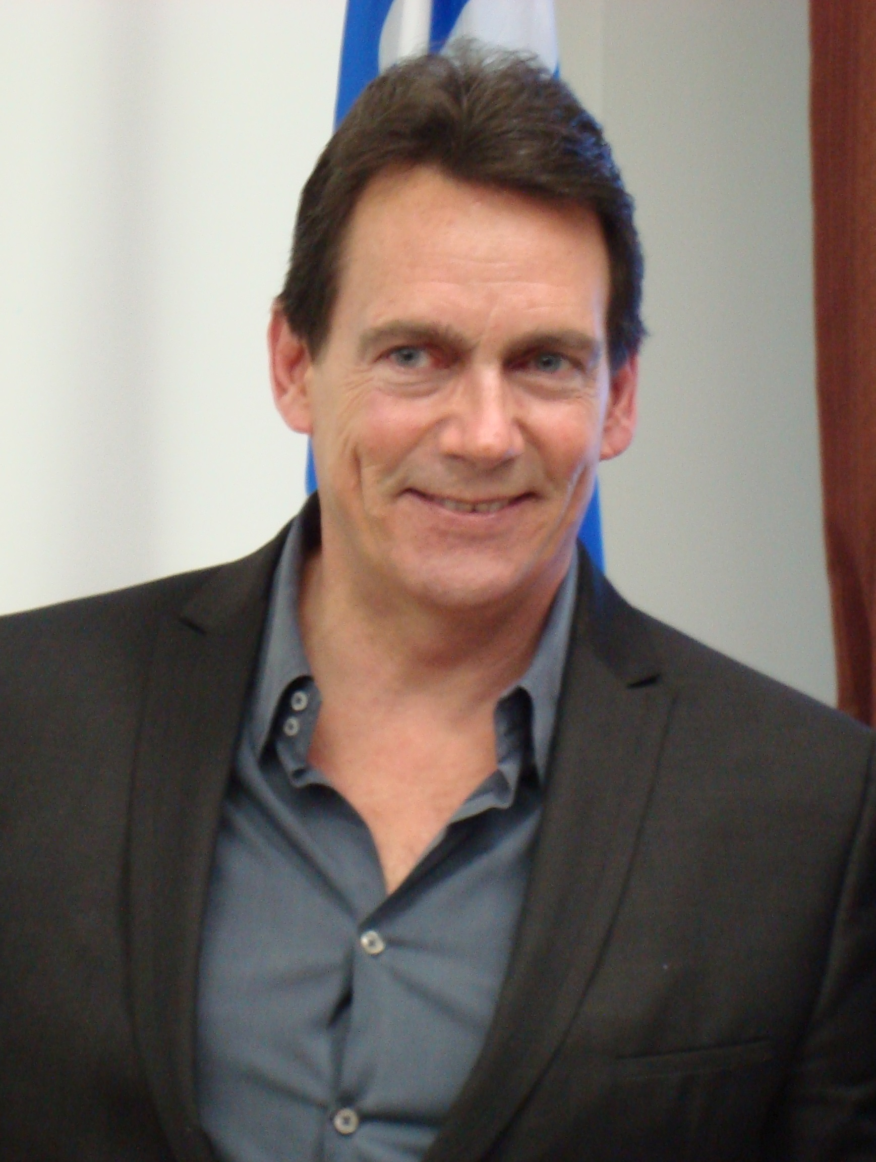 PKP, leader of PQ.